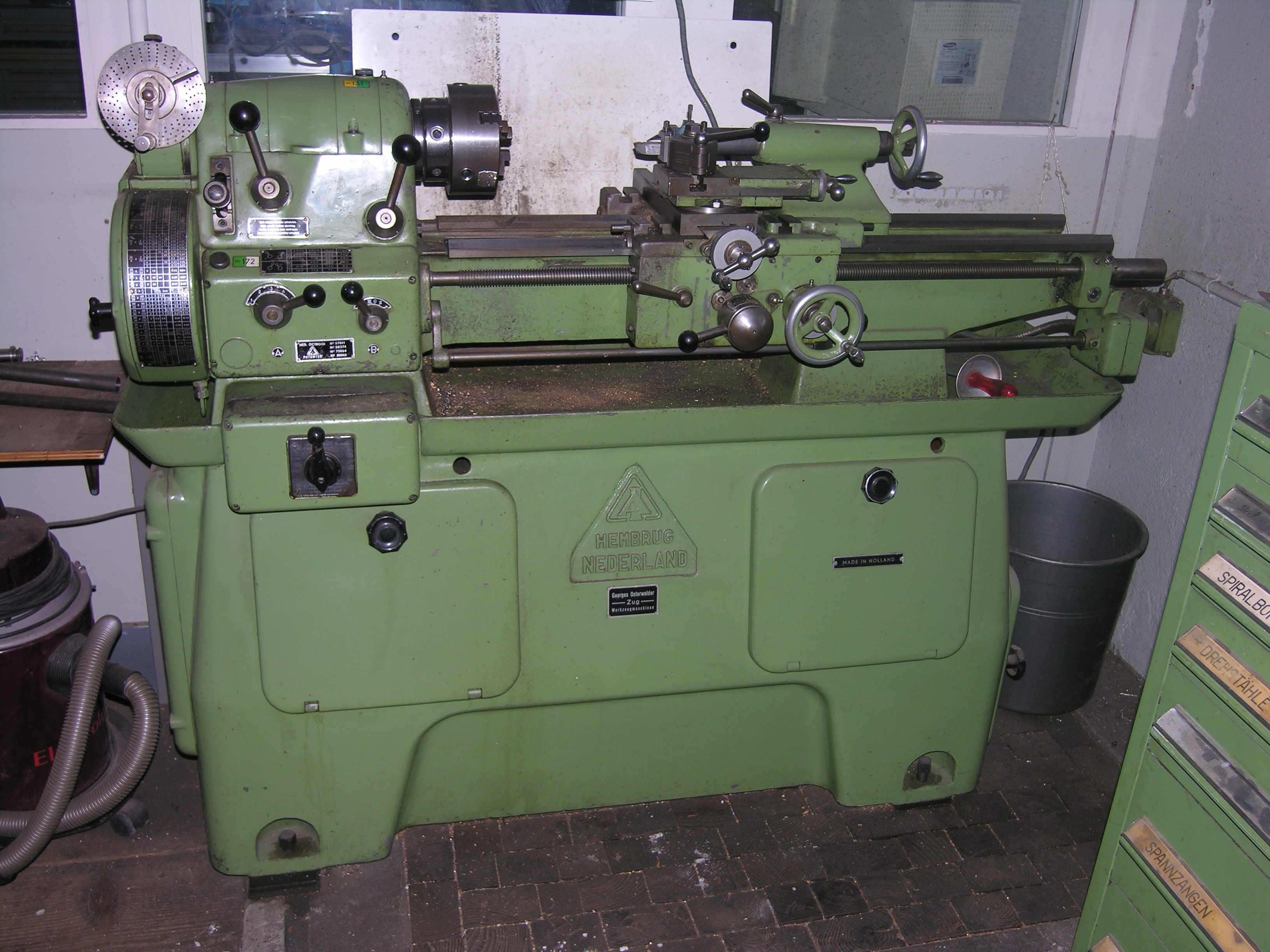 A large metalworking lathe (Zurich, Turbinenplatz)